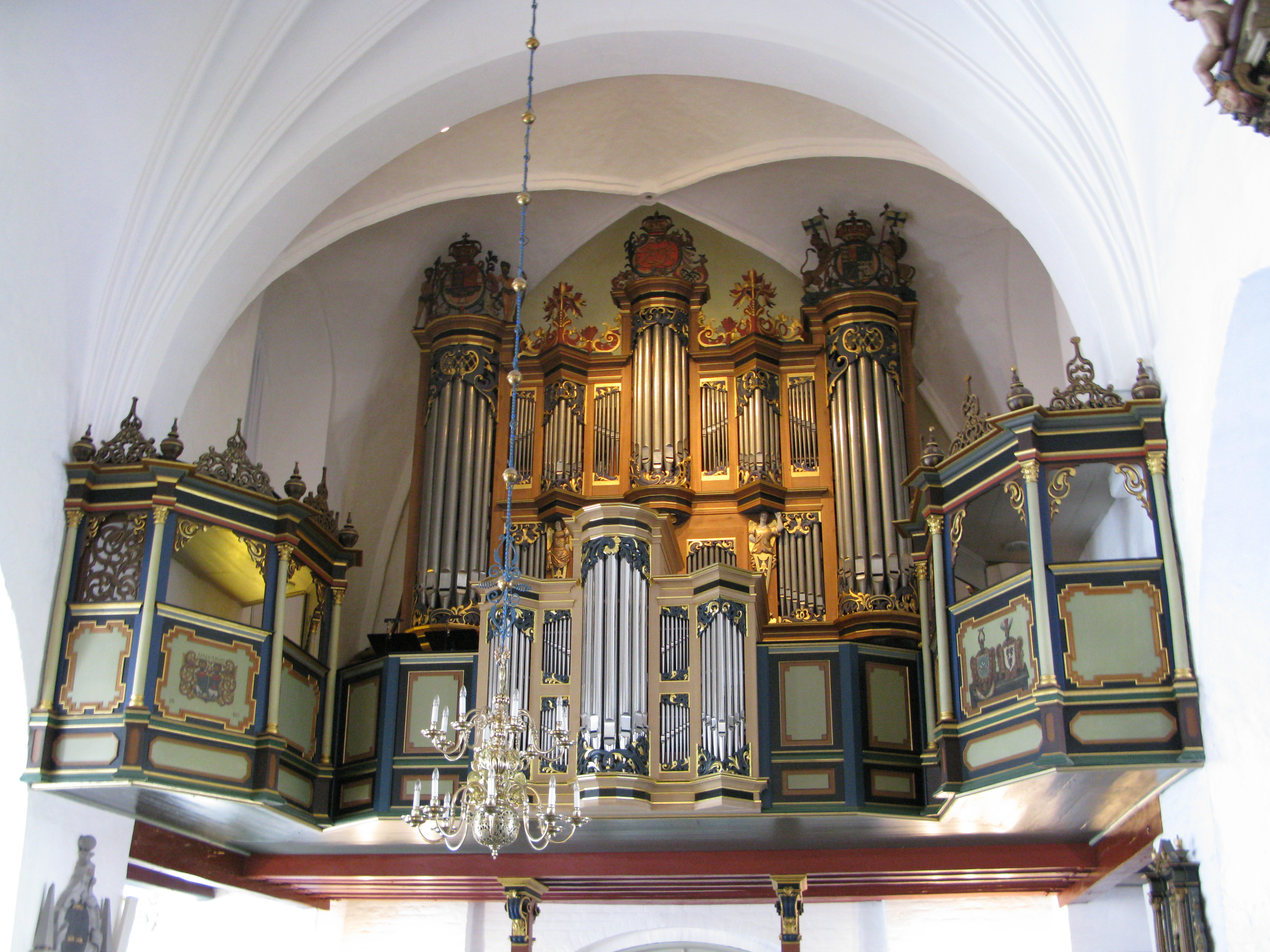 Pipe Organ of Budolfi-Cathedral Aalborg, Northern Denmark